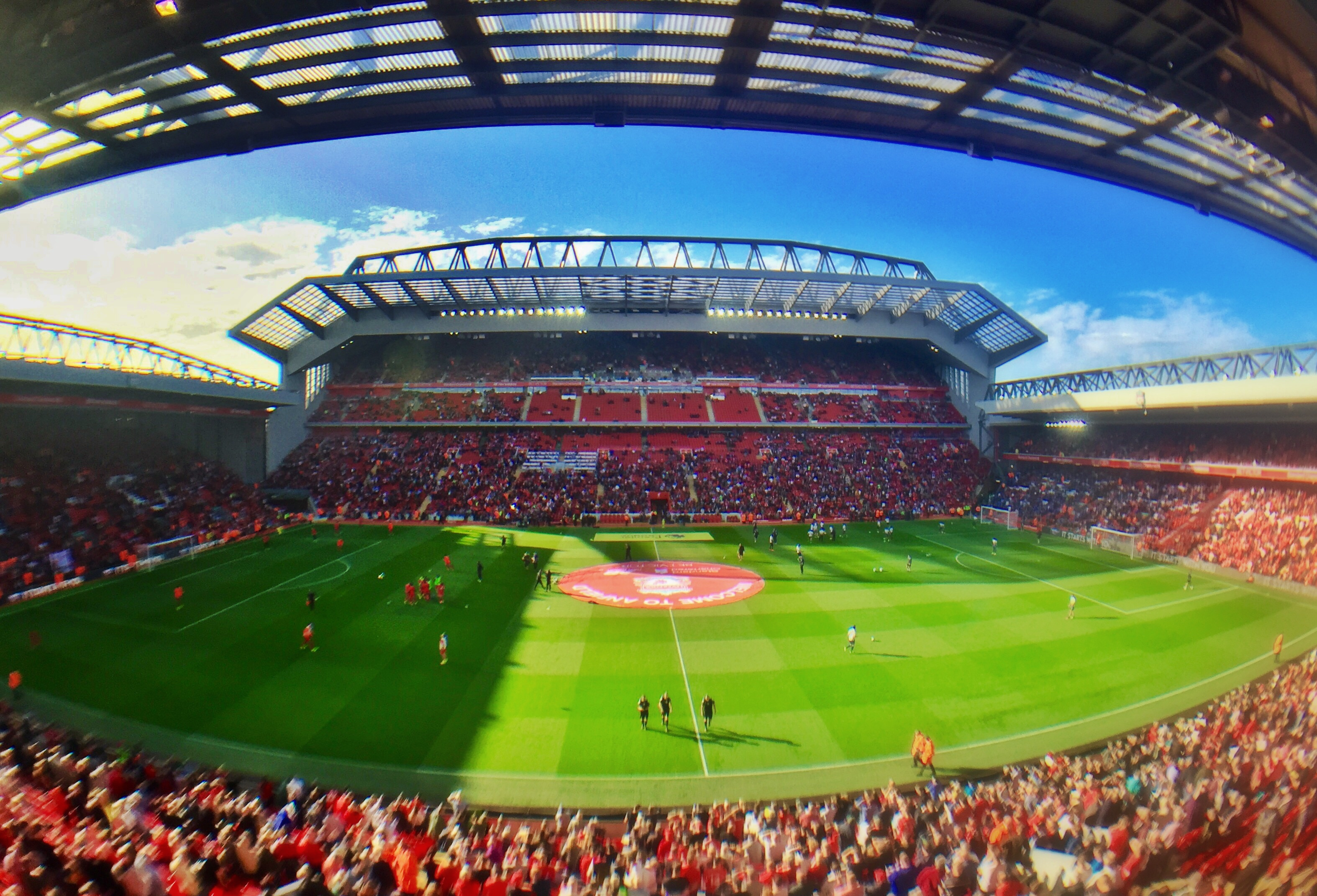 Panorama of Anfield stadium, taken from the Centenary Stand, showing from left to right: The Kop, the new Main Stand and the Anfield Road Stand